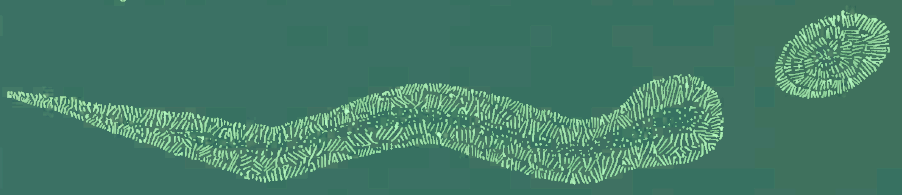 Ground plan of Otonabee Serpent Mound, Otonabee-South Monaghan, Ontario, Canada. Drawing originally published in a report by David Boyle in Annual archaeological report 1896-97, Toronto, 1897, on page 20. This partial reproduction was published in E. O. Randall, The Serpent Mound, Adams County, Ohio, Columbus, 1905, on page 115.